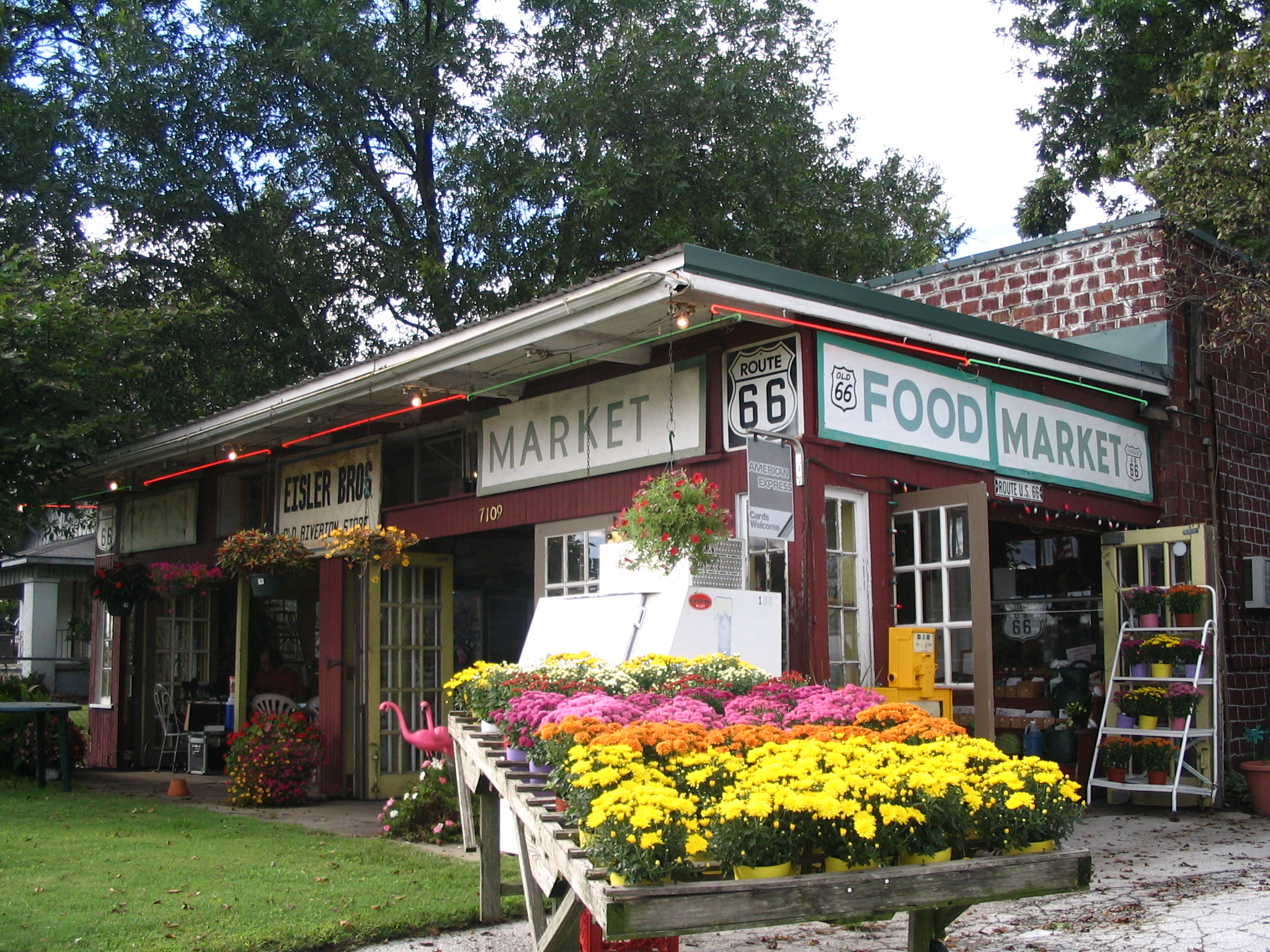 Famous Eisler Brothers General Store in Downtown Riverton KS